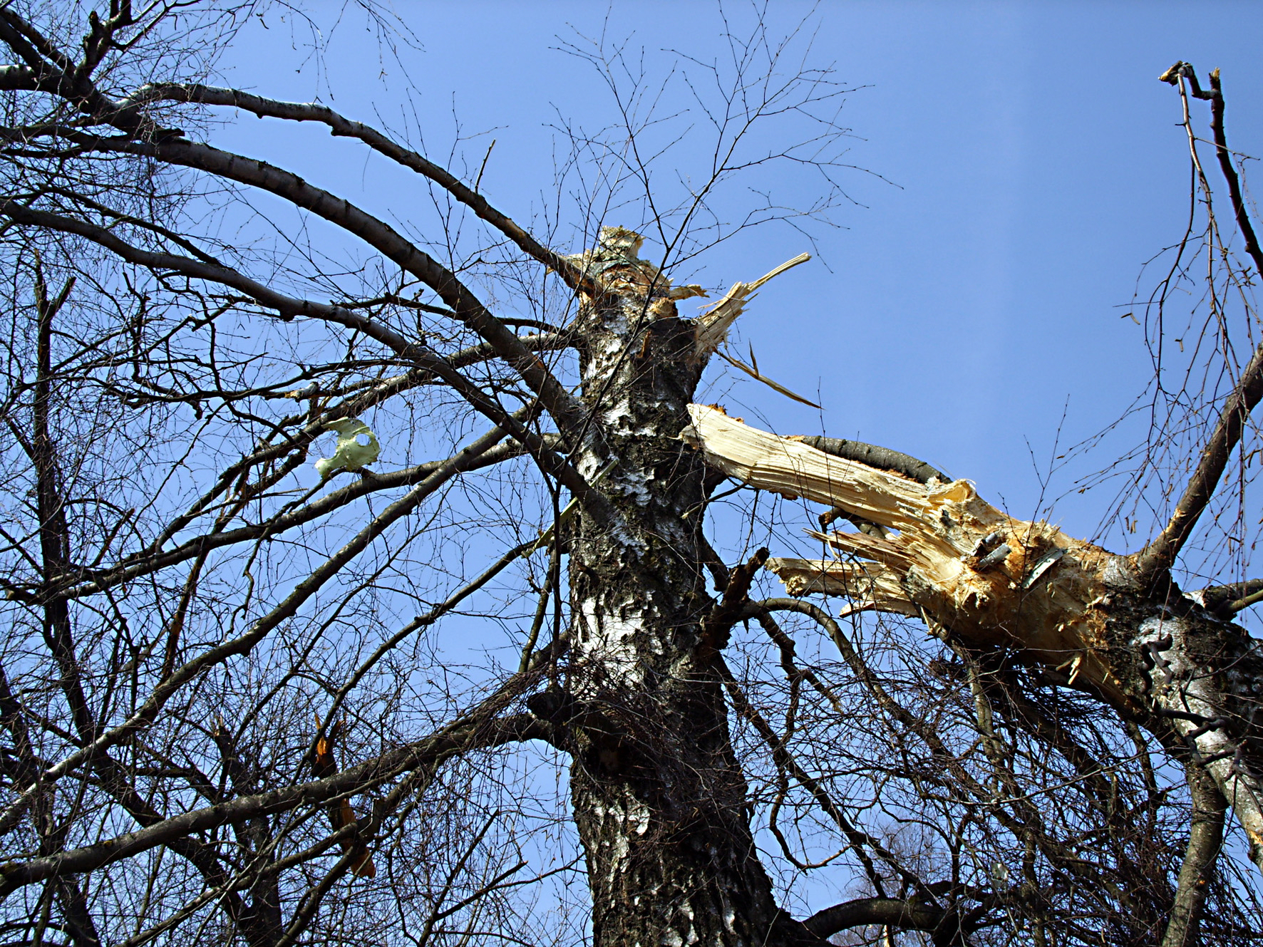 At a distance of 244 m from the first impact with lateral deviation of 61 m left from the extended runway centerline at a height of about 5 meters the aircraft hit this birch with a trunk measuring 30-40 cm in the diameter.